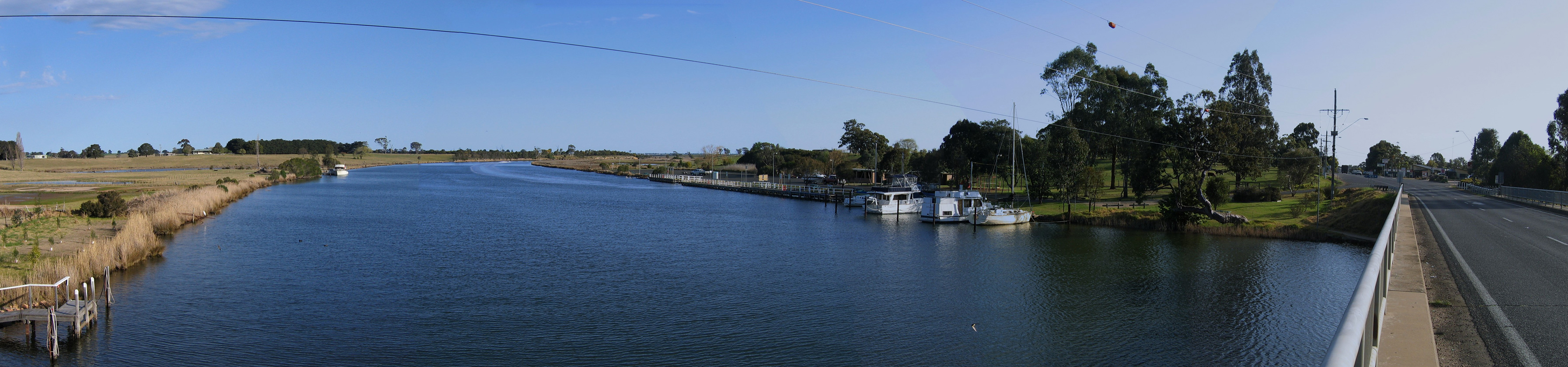 Panoramic view of the Nicholson River looking south, Nicholson boat ramp and Princes Highway through the Nicholson township.